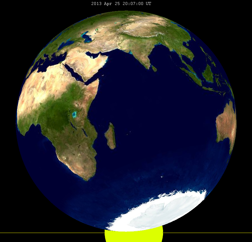 April 2013_lunar_eclipse view of earth The orientation of the earth as viewed from the center of the moon during greatest eclipse. thumb